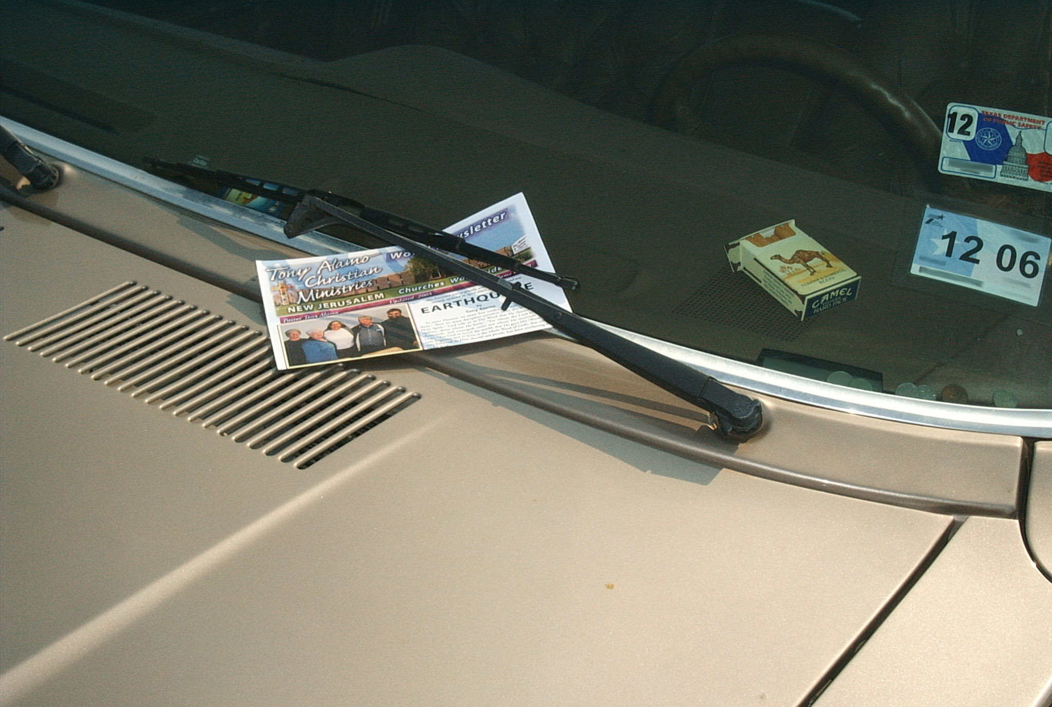 One of Tony Alamo's promotional leaflets on the windshield of a Chrysler Fifth Avenue